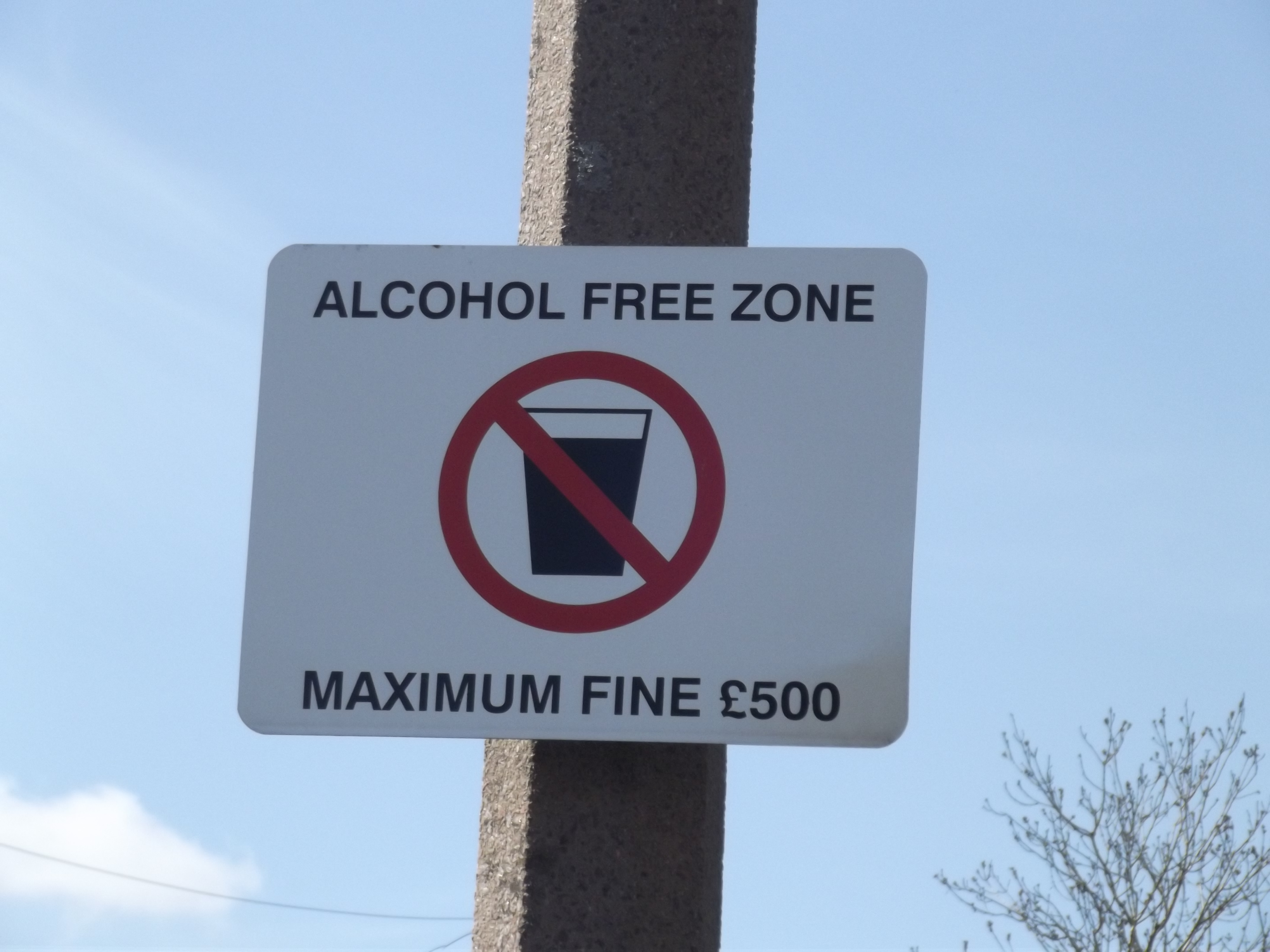 After not making it to the Lickey Hills last time (Beacon Hill) I returned, and tried a different route on foot. Getting close to making my way up to Beacon Hill. Passing through some suburban houses. On Valley Farm Road in Rubery (Rednal). Alcohol Free Zone sign on Valley Farm Road.